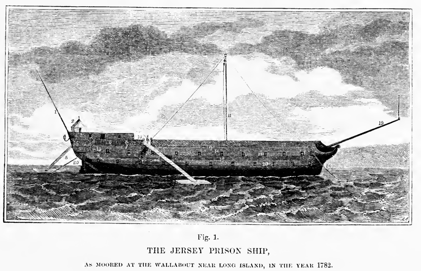 Figure 1 from Recollections of the Jersey prison ship: from the orginal manuscripts of Capt. Thomas Dring, one of the prisoners. Captioned: "The Jersey Prison Ship as moored at the Wallabout near Long Island, in the year 1782."